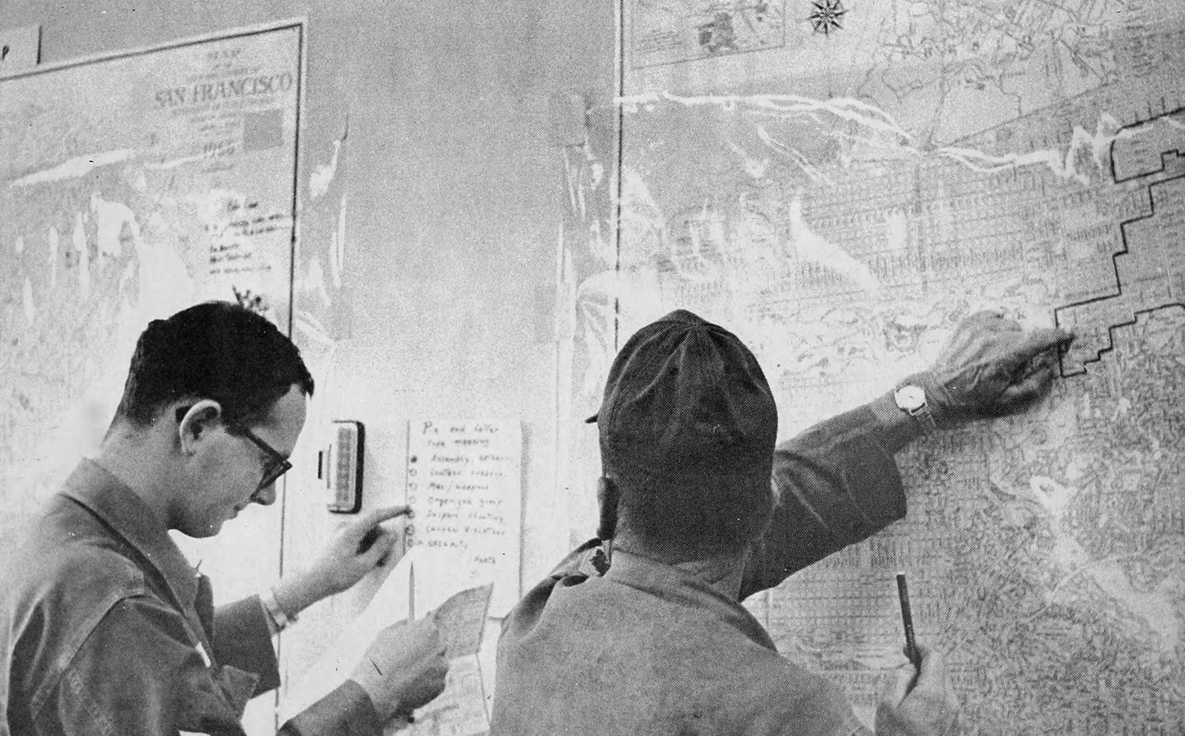 Page 146 from the "128 Hours" report.